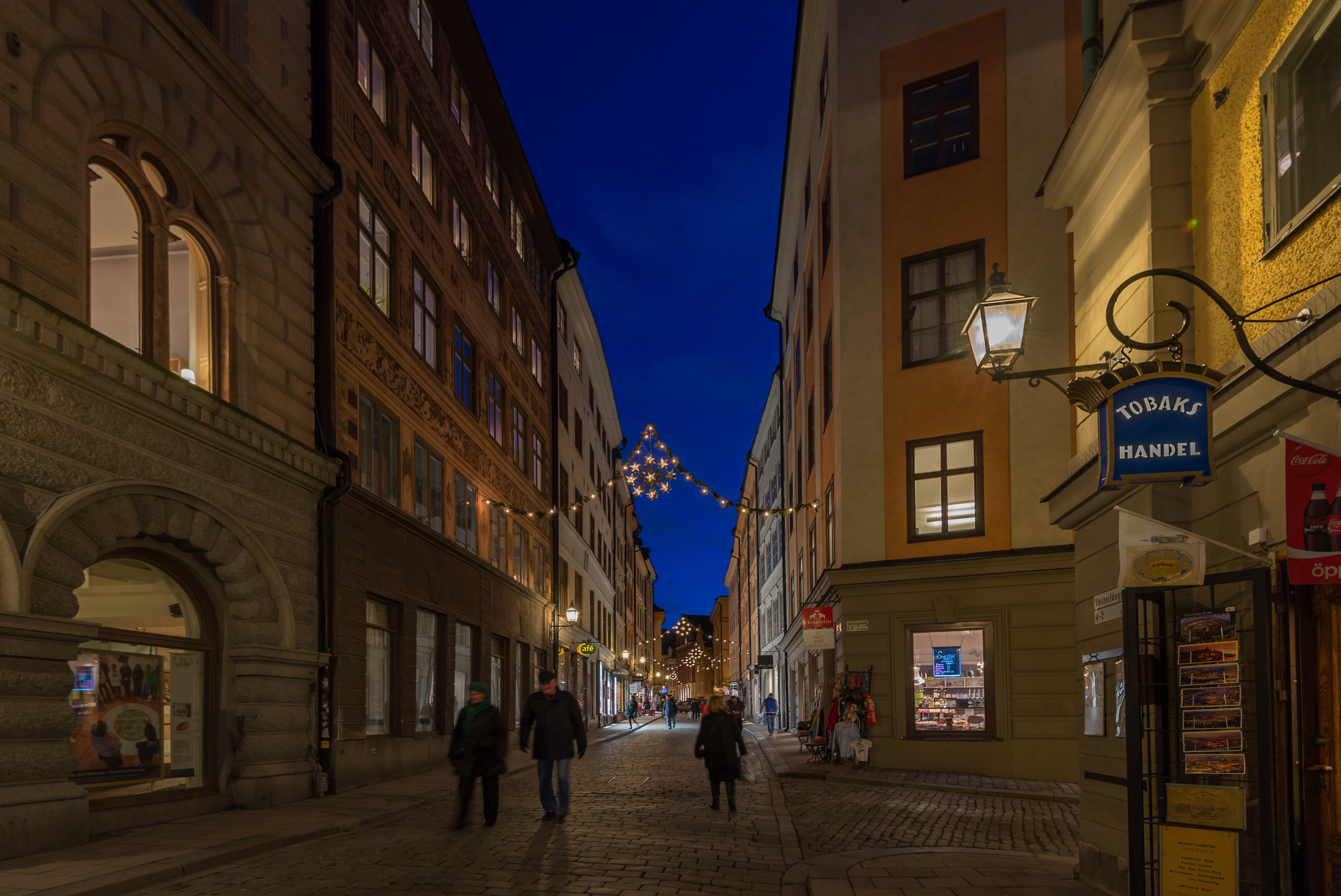 Västerlånggatan, Gamla stan (Old town), Stockholm.